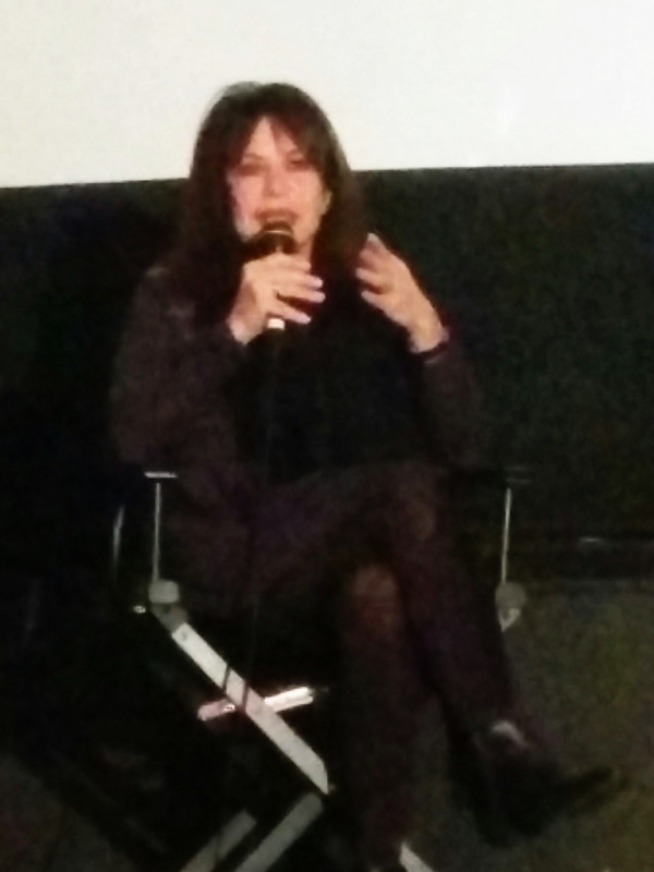 Lizzie Borden at a Q&A session for Born in Flames at the Roxie Theater in San Francisco, California, United States